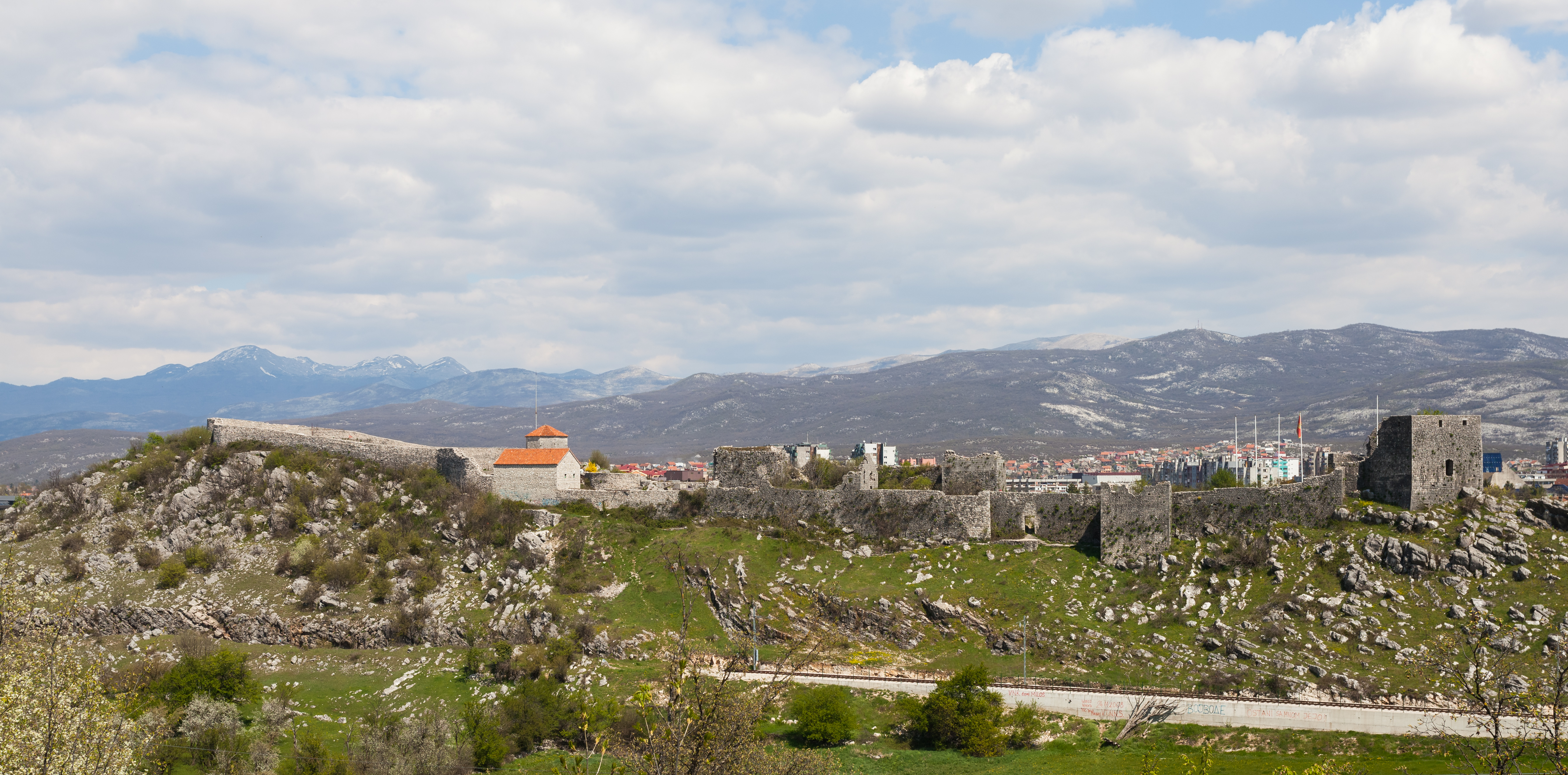 Castle of Bedem, Nikšić, Montenegro